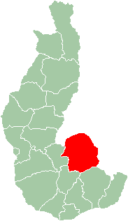 Location map of Betroka region in Toliara province.